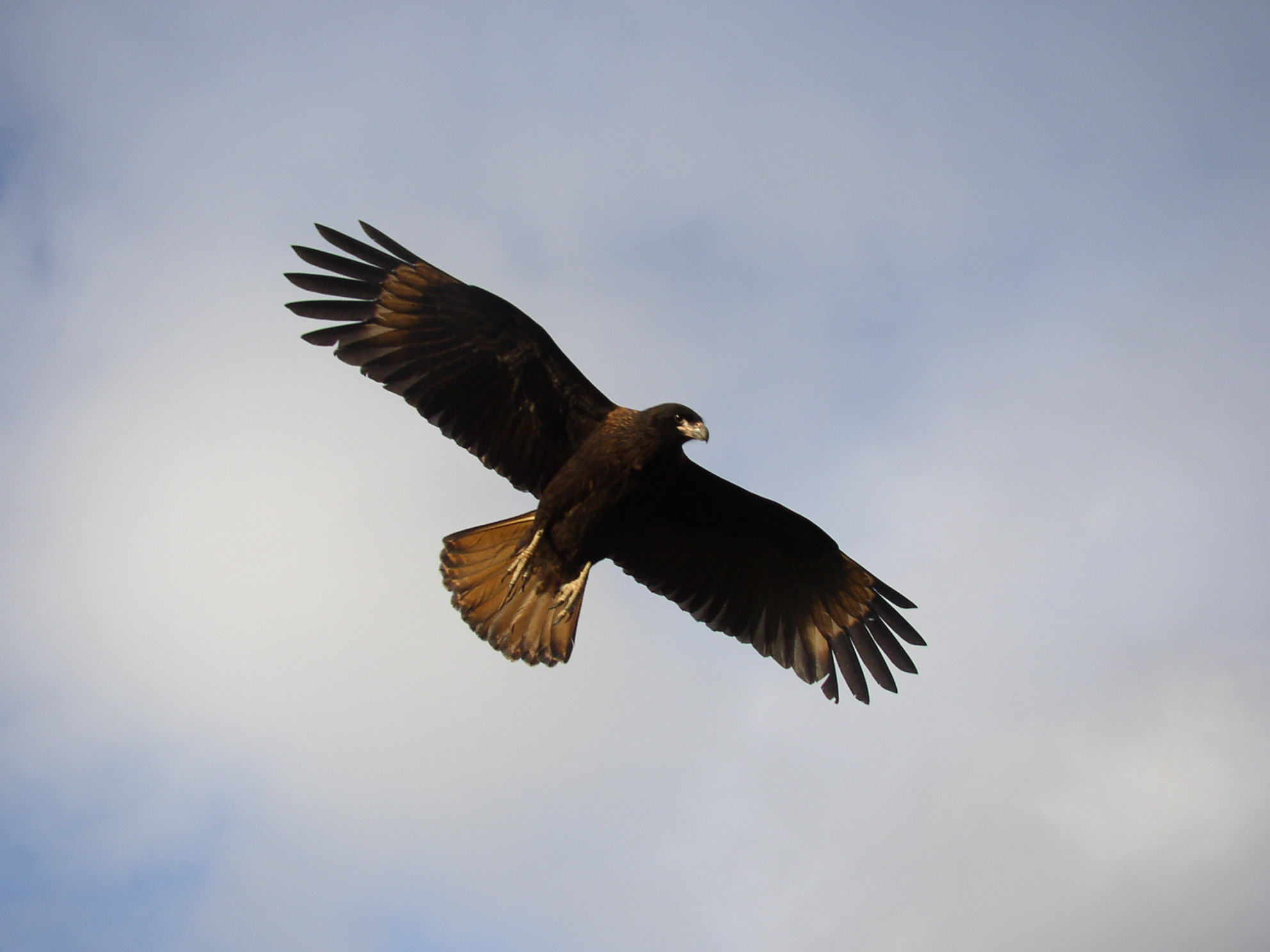 Shot by myself in the Falkland Islands